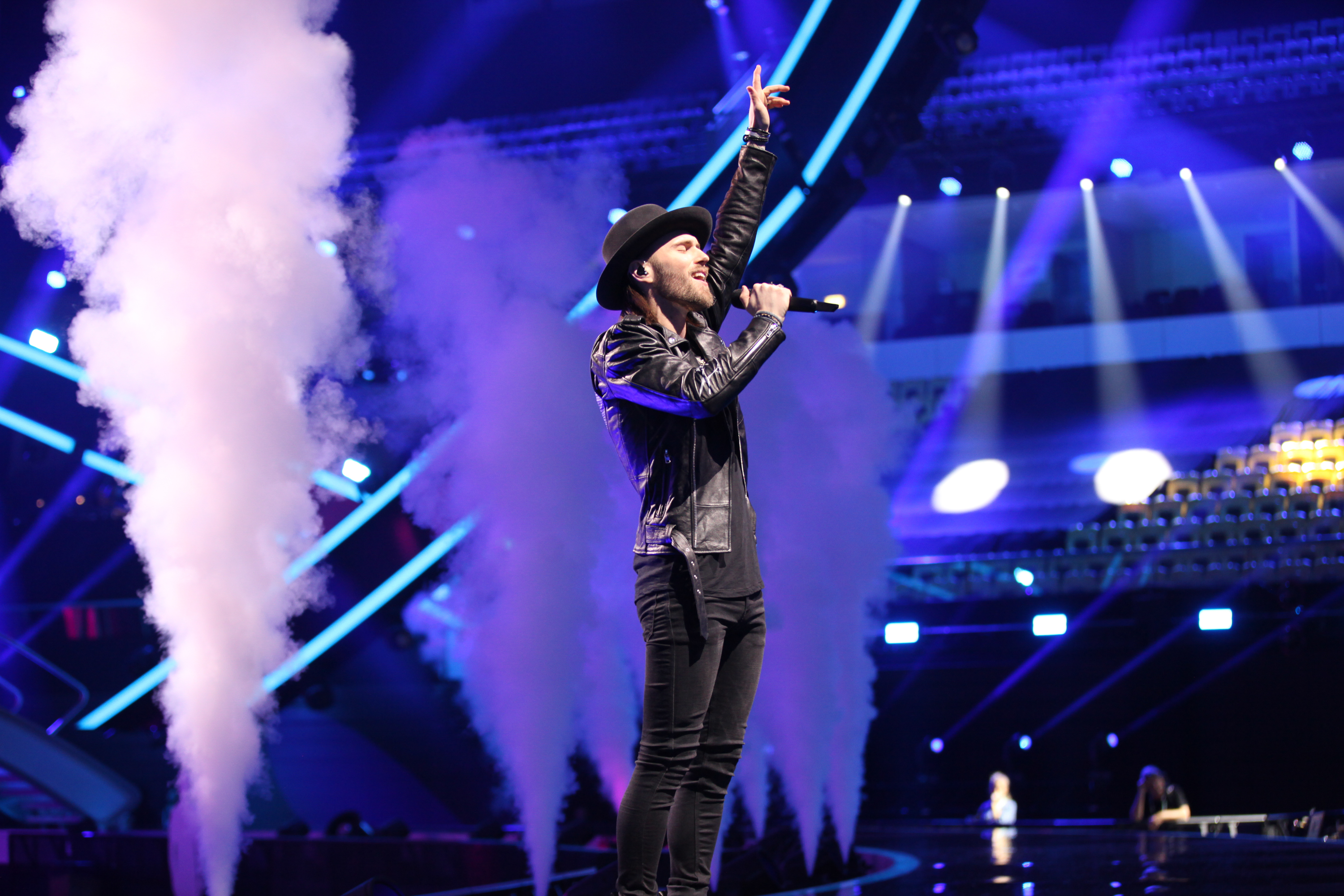 Gromee feat. Lukas Meijer representing Poland with the song "Light Me Up" during a rehearsal before the second semi final of the Eurovision Song Contest 2018 in Lisbon.